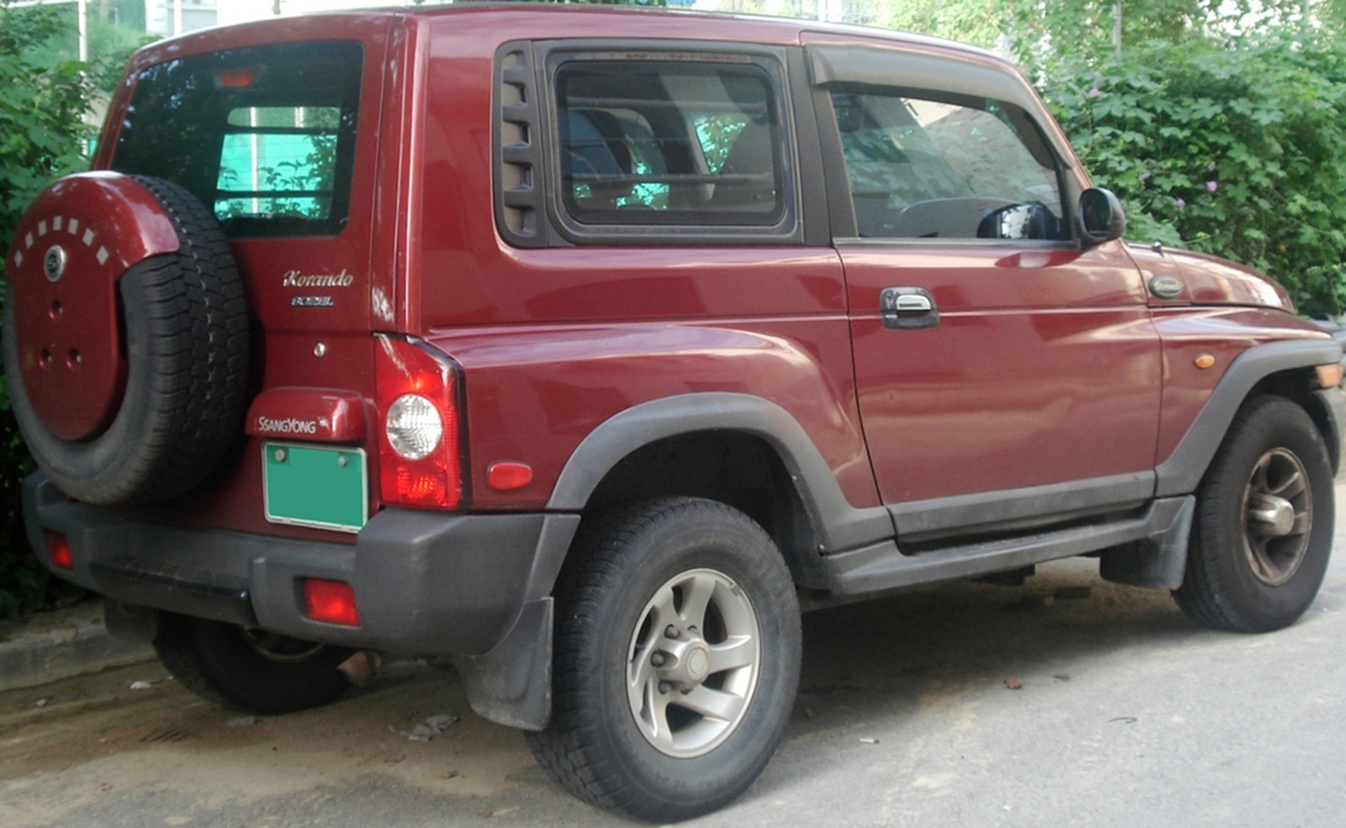 SsangYong New Korando